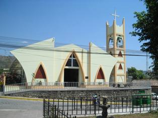 Es la Iglesia de Dulce Nombre de Maria